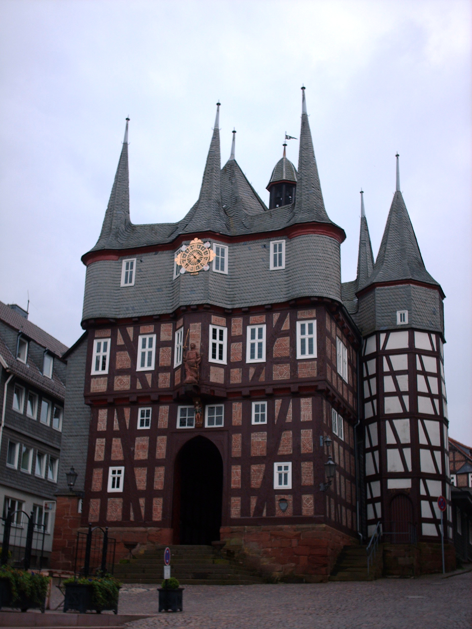 Town hall, Frankenberg (Eder), Germany check usage